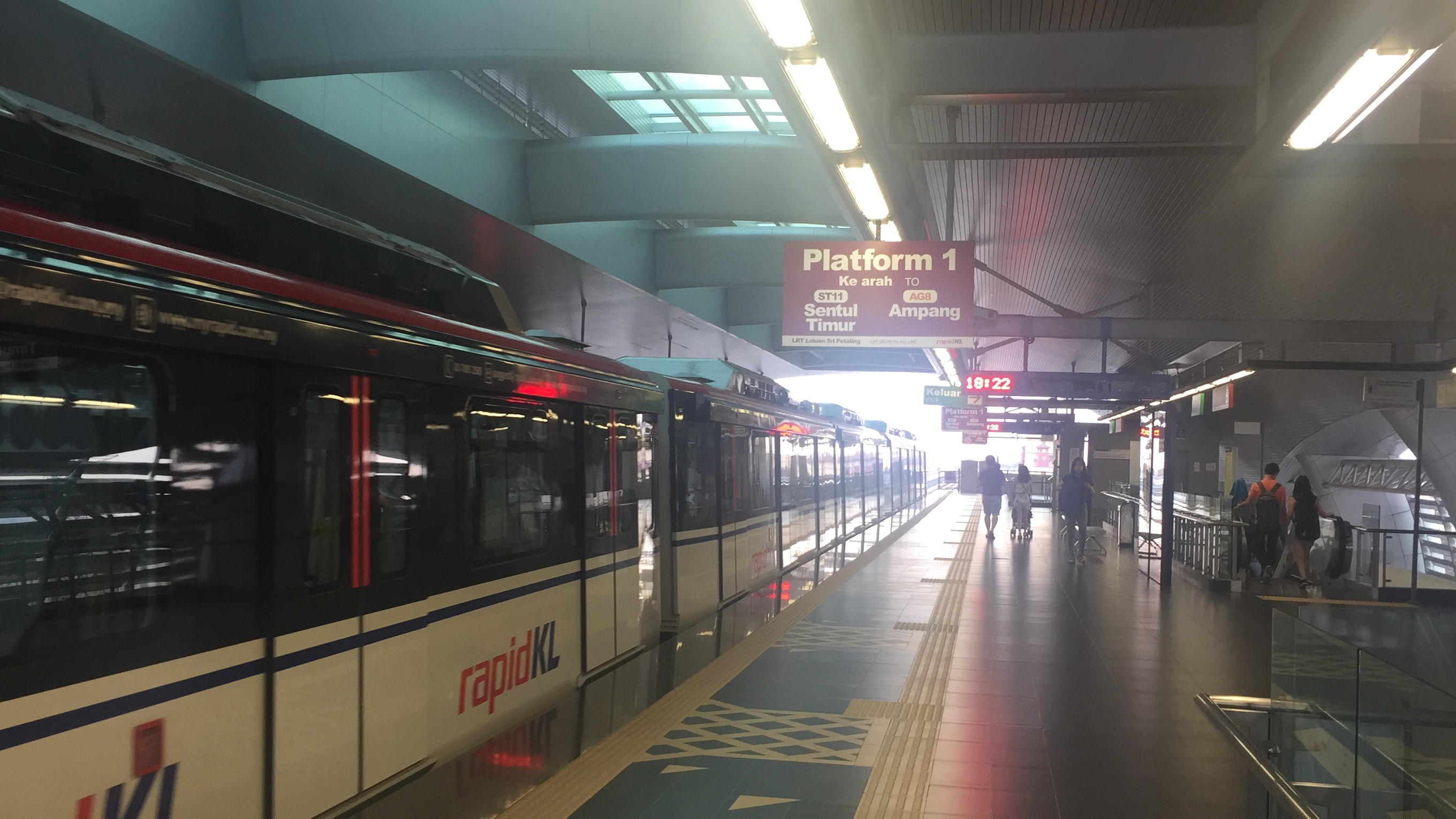 Side platform at iOi Puchong Jaya LRT.